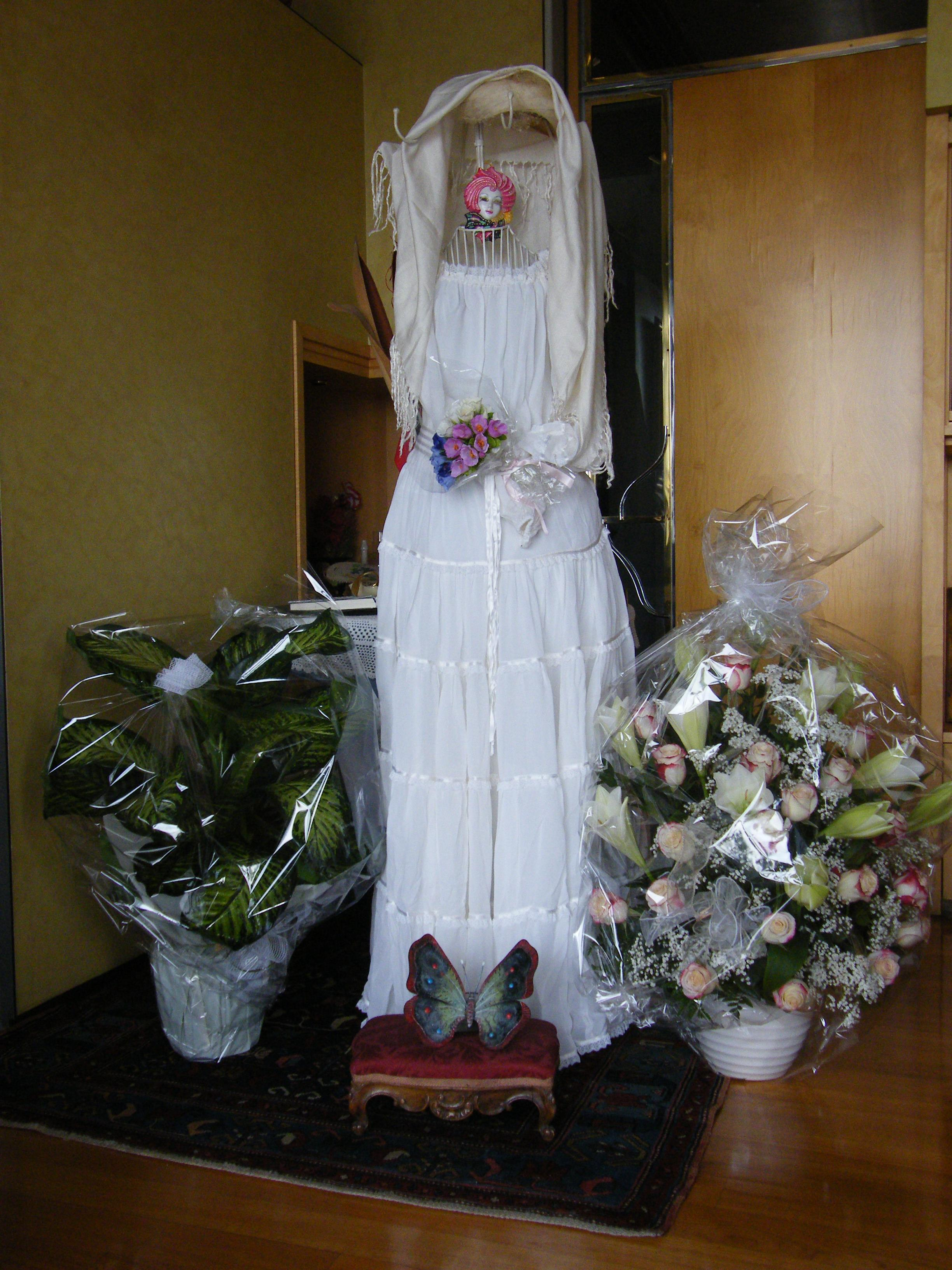 "The Bride" is the installation created for a wedding party celebrated in Turin (Italy) in the month of October 2015